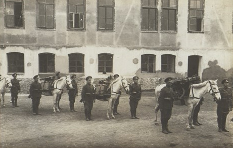 Bulgaria